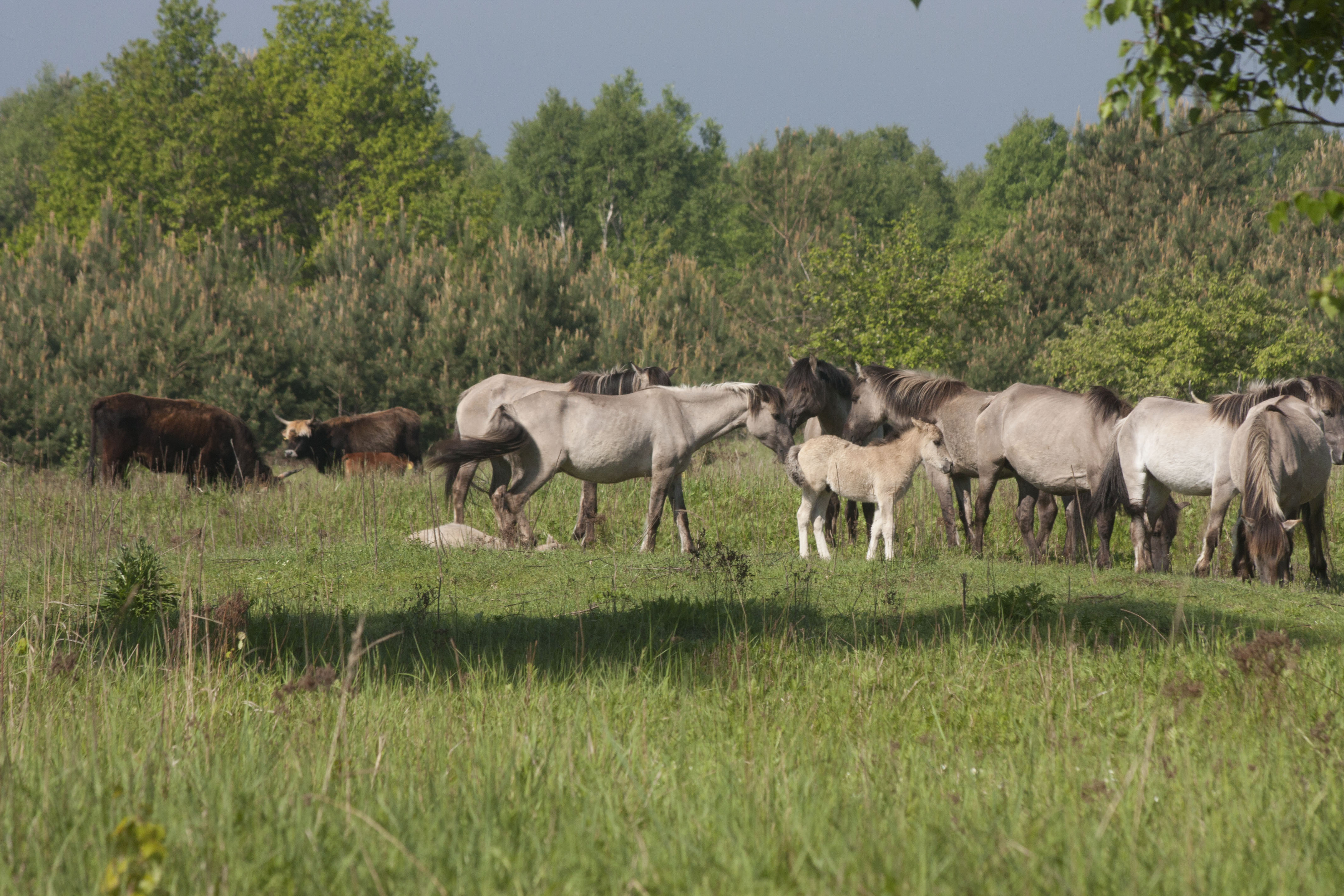 Koniks and Heck cattles in the nature reserve "Oranienbaumer Heide" (Saxony-Anhalt)